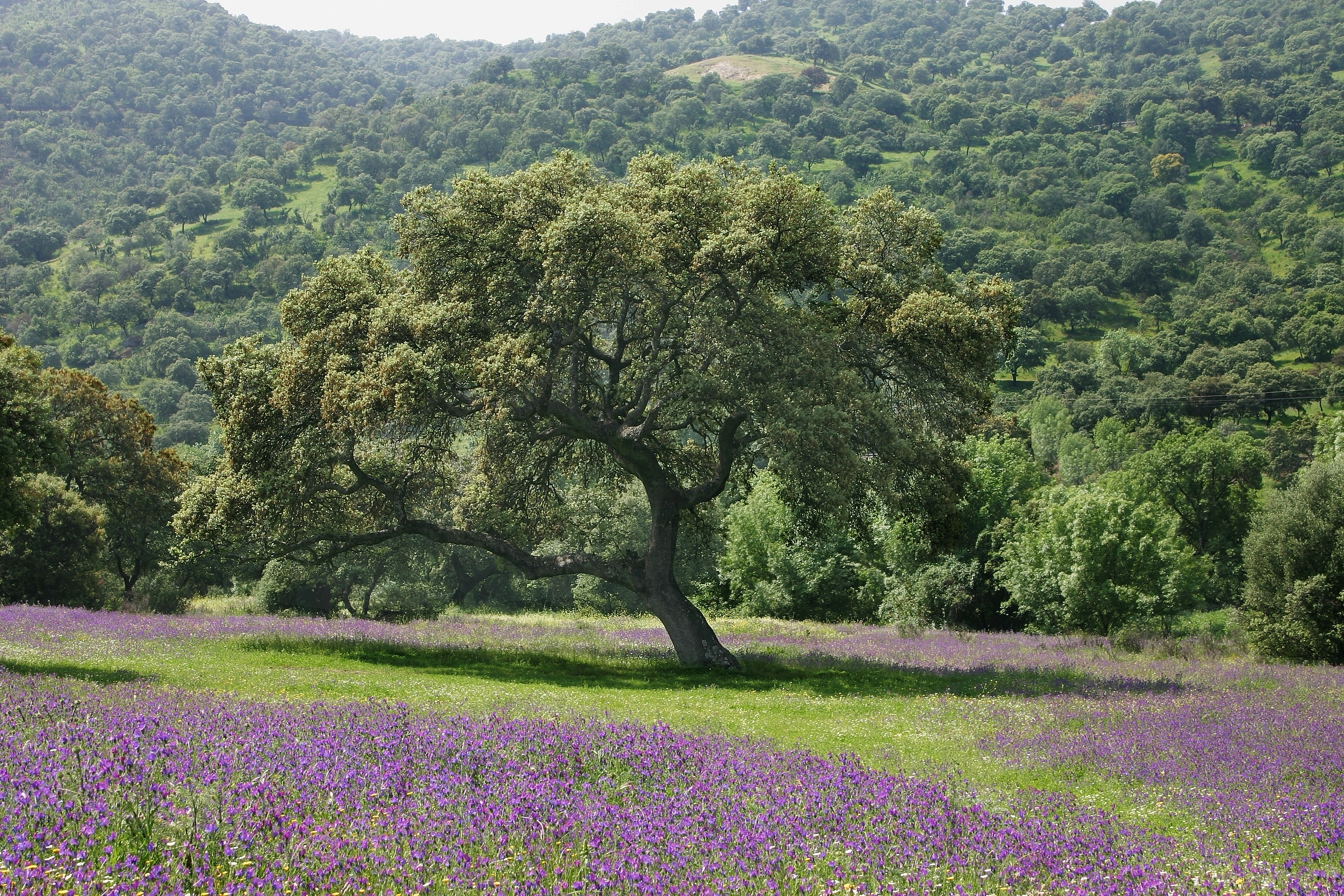 Holm oak (Quercus ilex) in spring, Despeñaperros Natural Park (Andalusia, Spain)